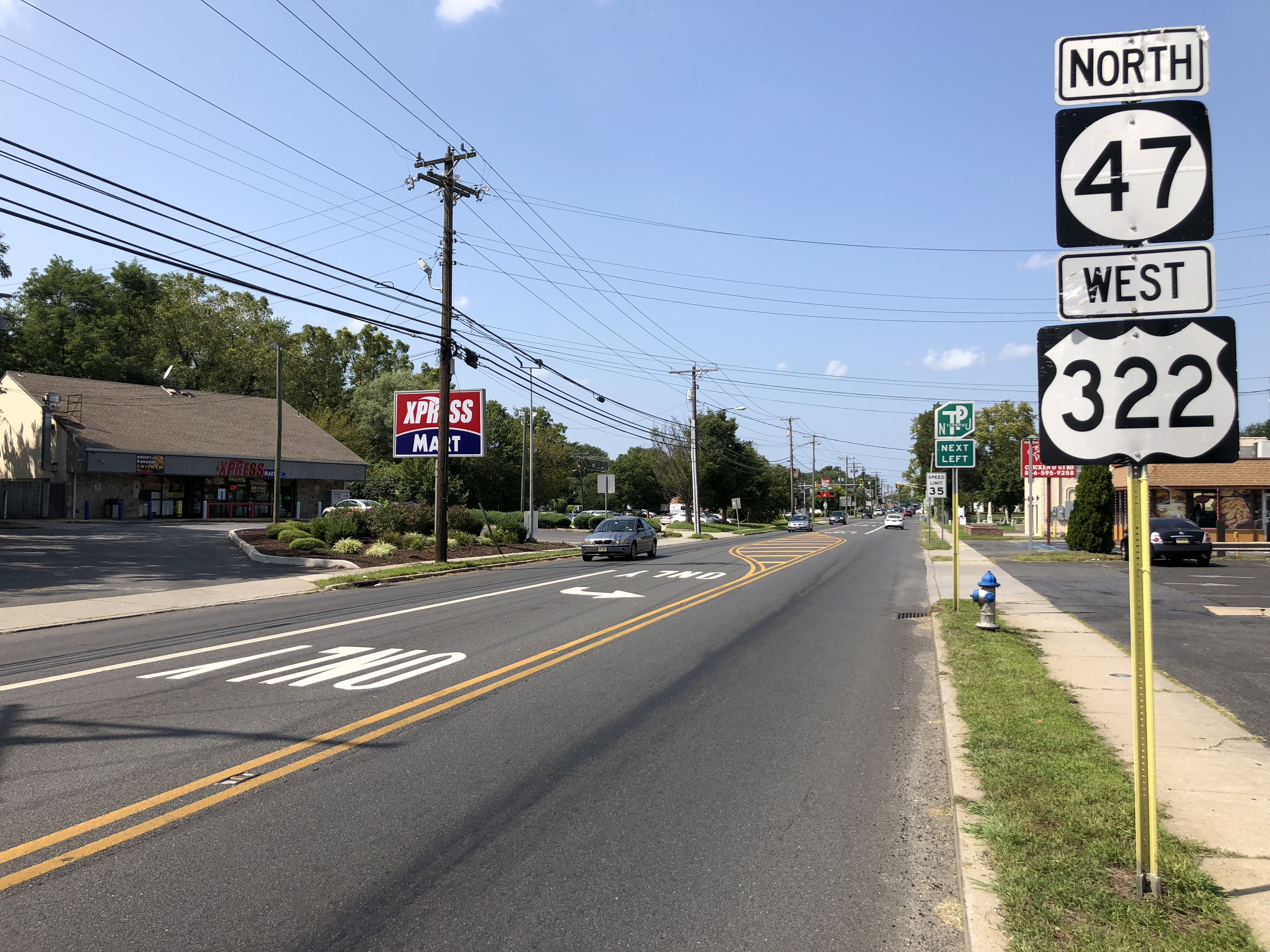 View west along U.S. Route 322 and Gloucester County Route 536 and north along New Jersey State Route 47 (Delsea Drive) at Gloucester County Route 689 (New Street) in Glassboro, Gloucester County, New Jersey